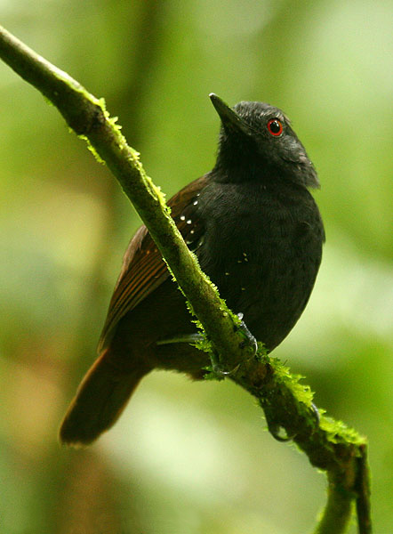 Dull-mantled Antbird Myrmeciza laemosticta Tapir Lodge trails, near Braulio Carillo NP, Costa Rica Caribbean foothill forest 15 July 2008